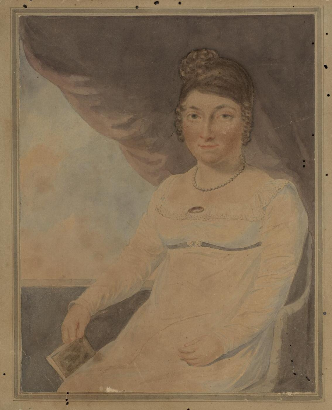 A portrait from the Welsh Portrait Collection at the National Library of Wales. Depicted person: Maria Jane Williams – Welsh musician and folklorist